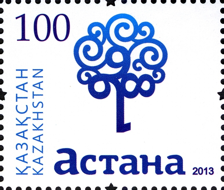 15 Years to Astana